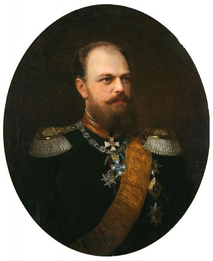 Portrait of Alexander III wearing Prussian orders with the collar of the House order of Hohenzollern, 1882, by Johann Köler